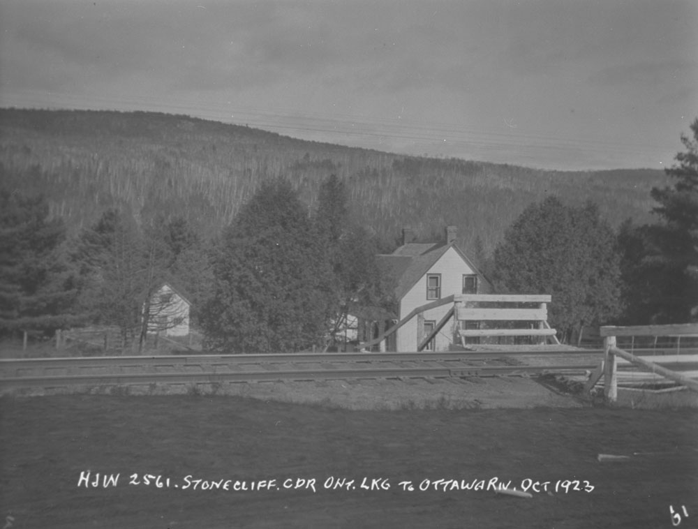 Stonecliffe, Ontario.